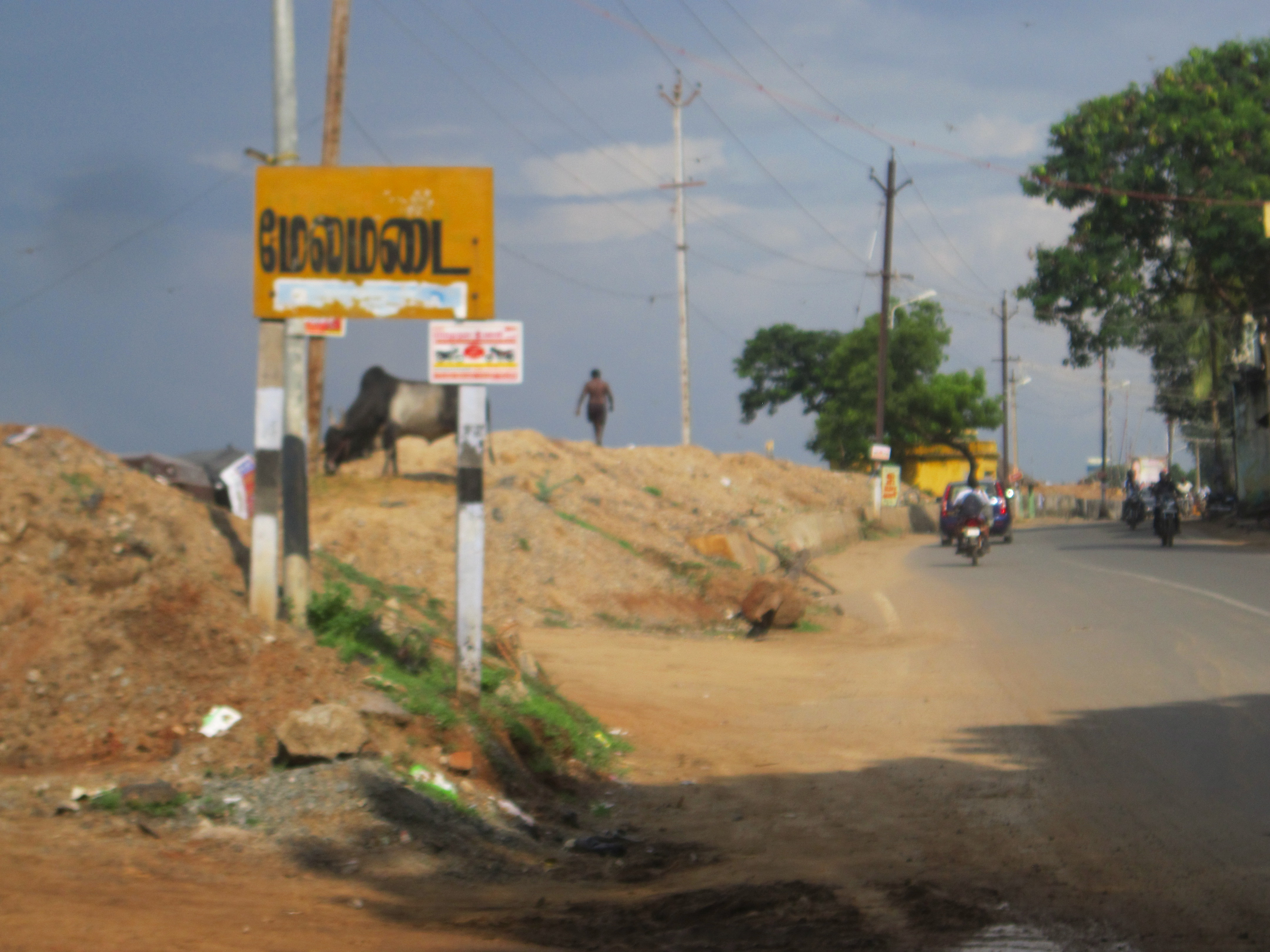 this picture was taken on 23rd November 2015, this is the beginning place of Melamadai